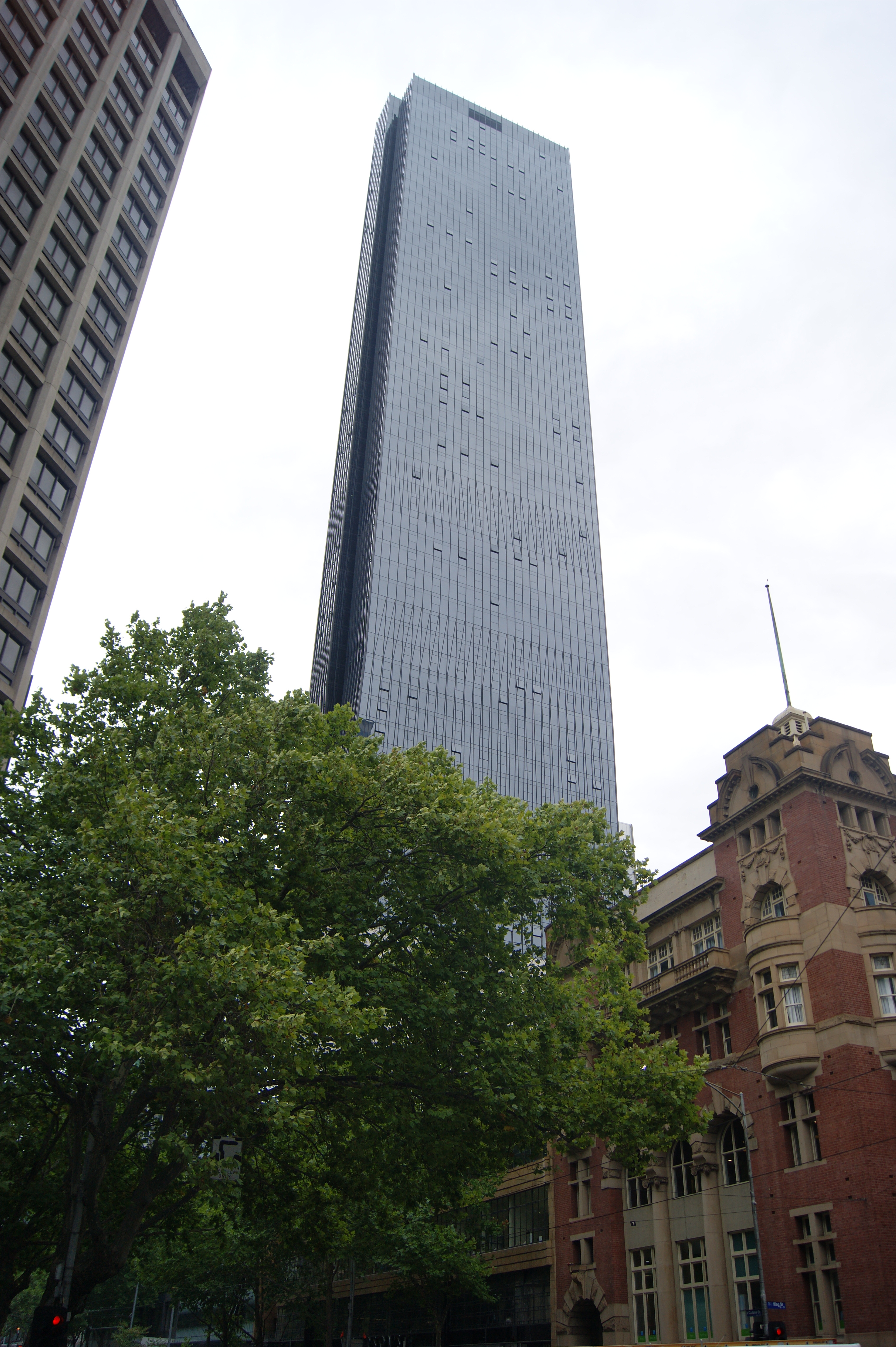 568 Collins Street, Melbourne city centre.